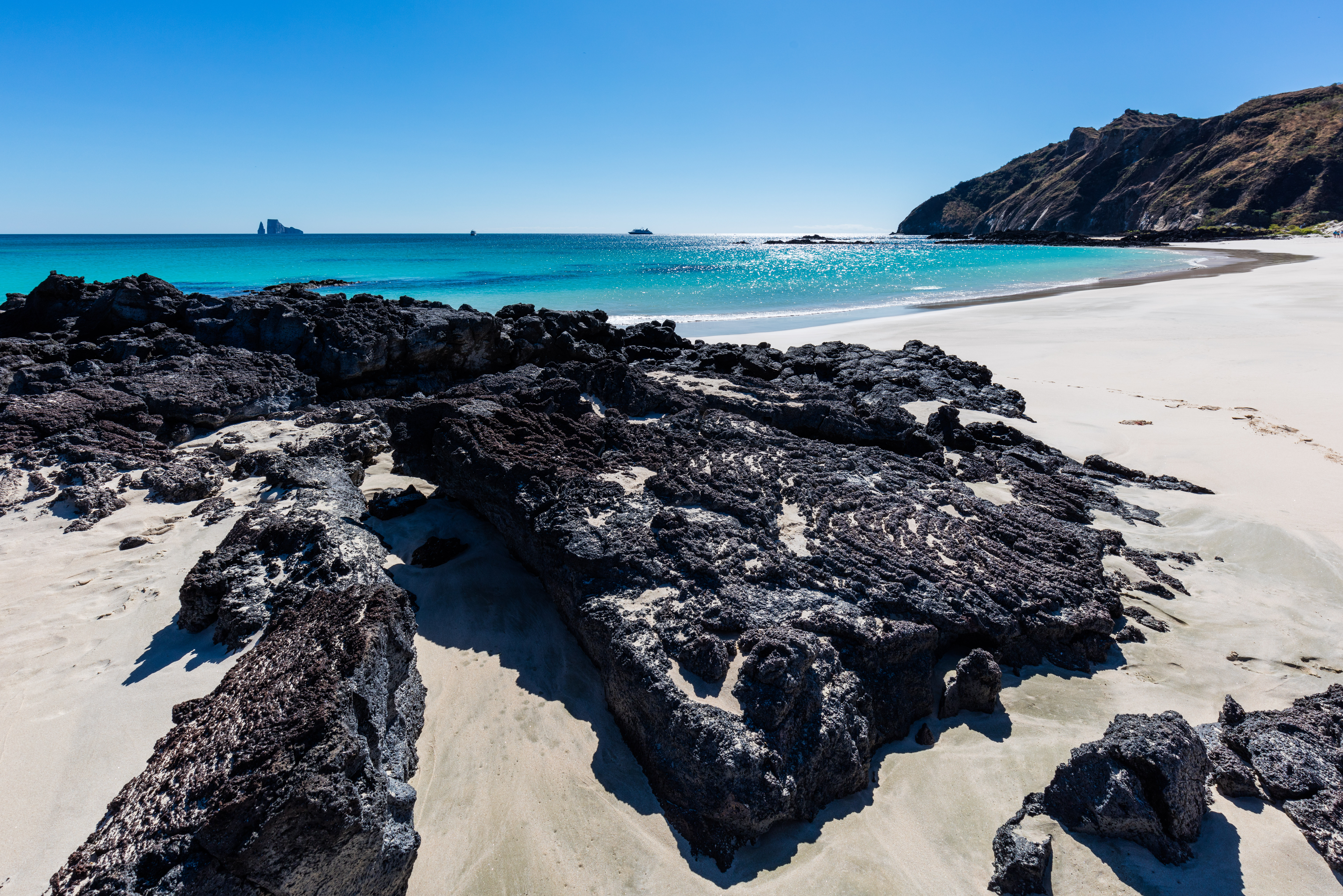 View of Cerro Brujo, San Cristobal Island, Galapagos Islands, Ecuador